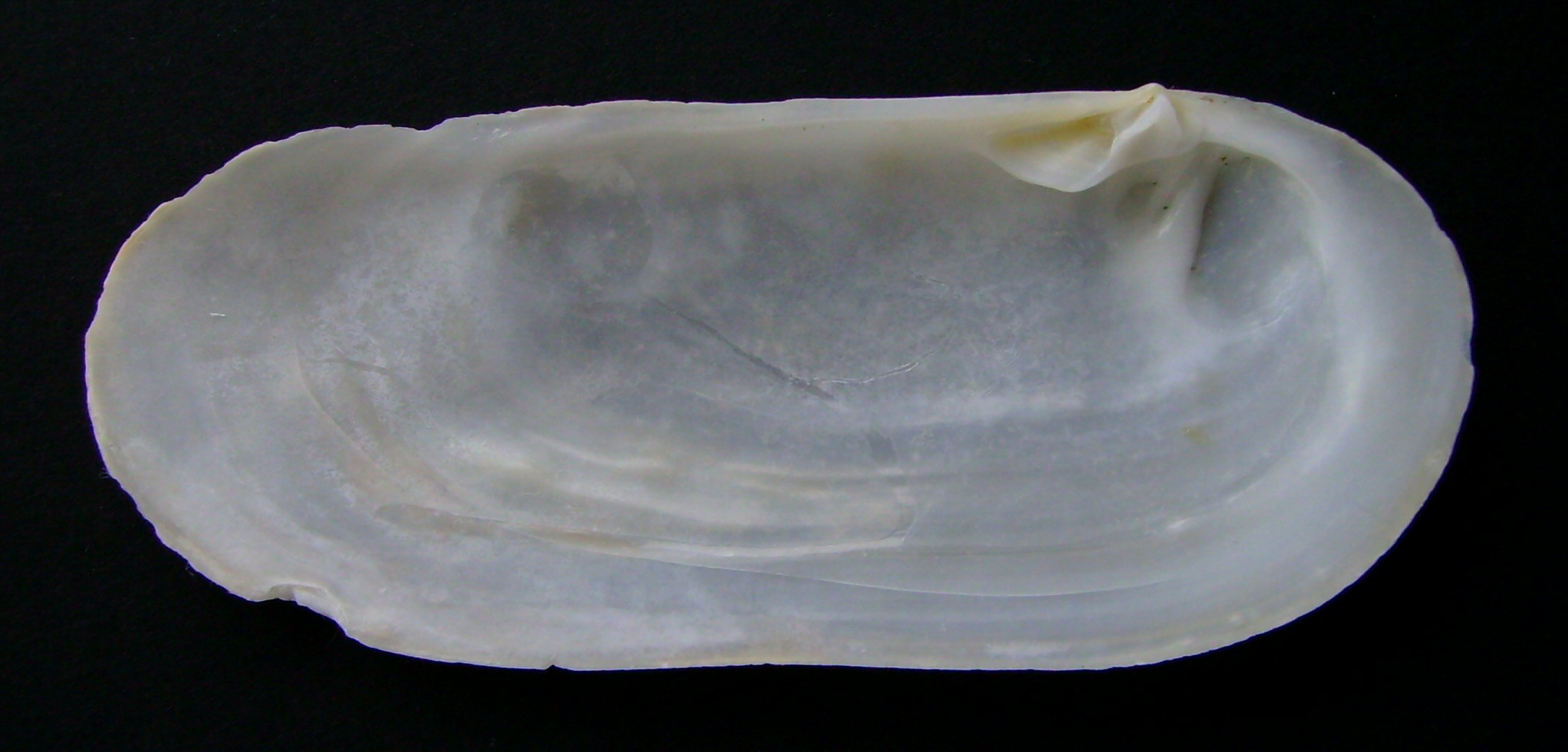 Zenatia acinaces (inside) from Pakiri Beach, New Zealand. This work has been released into the public domain by its author, Graham Bould. This applies worldwide.In some countries this may not be legally possible; if so:Graham Bould grants anyone the right to use this work for any purpose, without any conditions, unless such conditions are required by law.